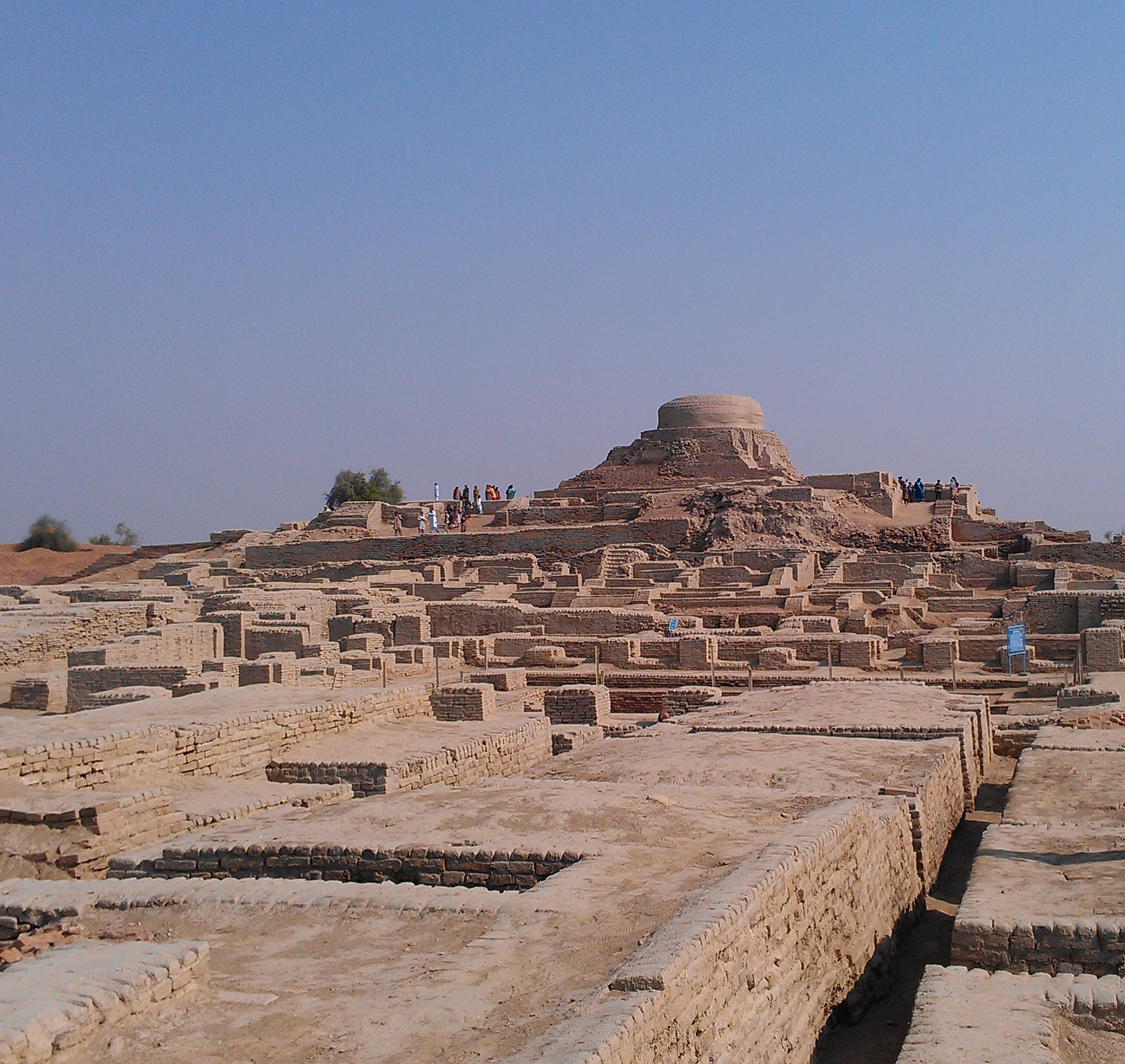 Moenjodaro This is a photo of a monument in Pakistan identified as the SD-41